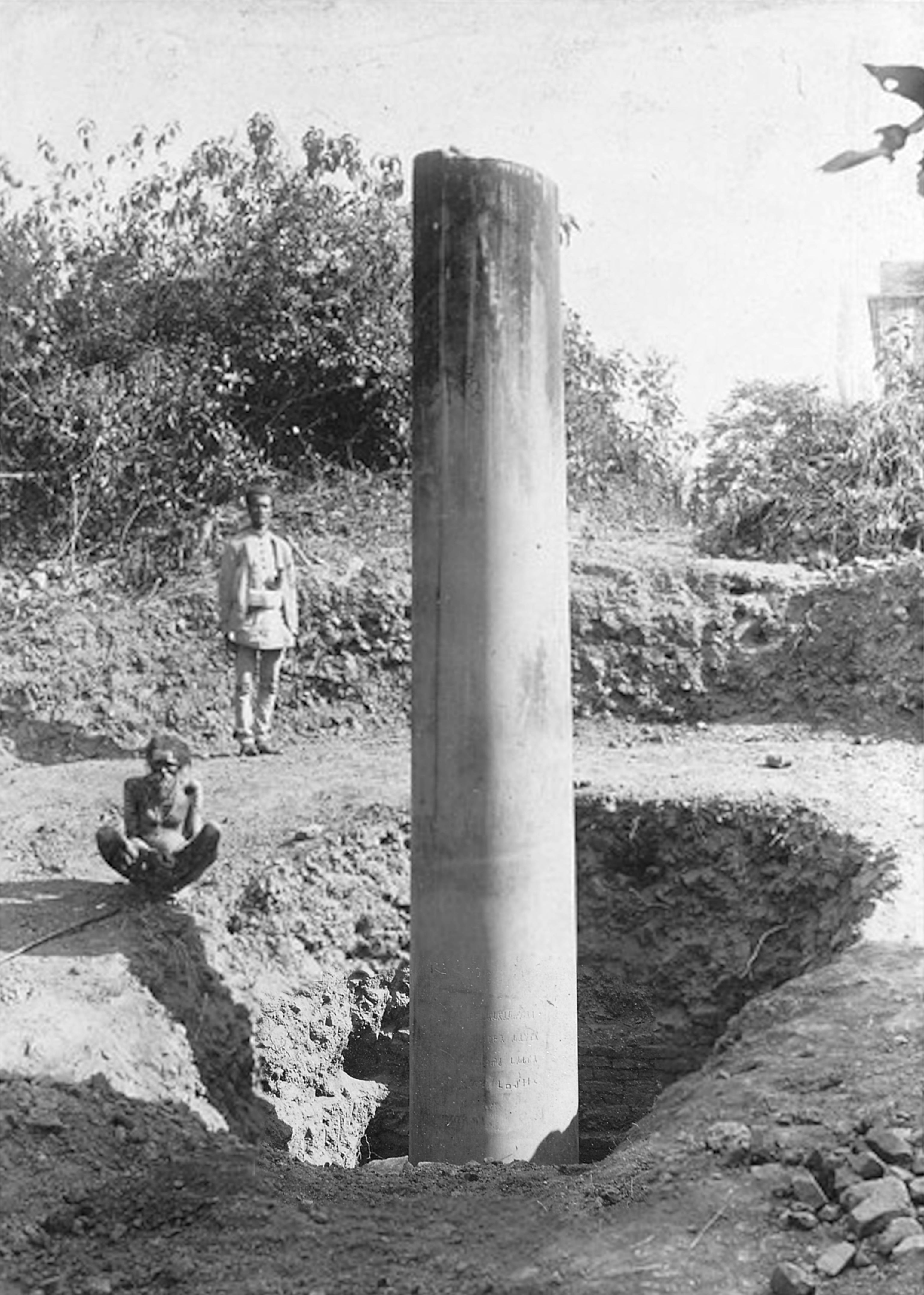 Lumbini pillar excavation 1896. Inscription portion enhanced using the original.